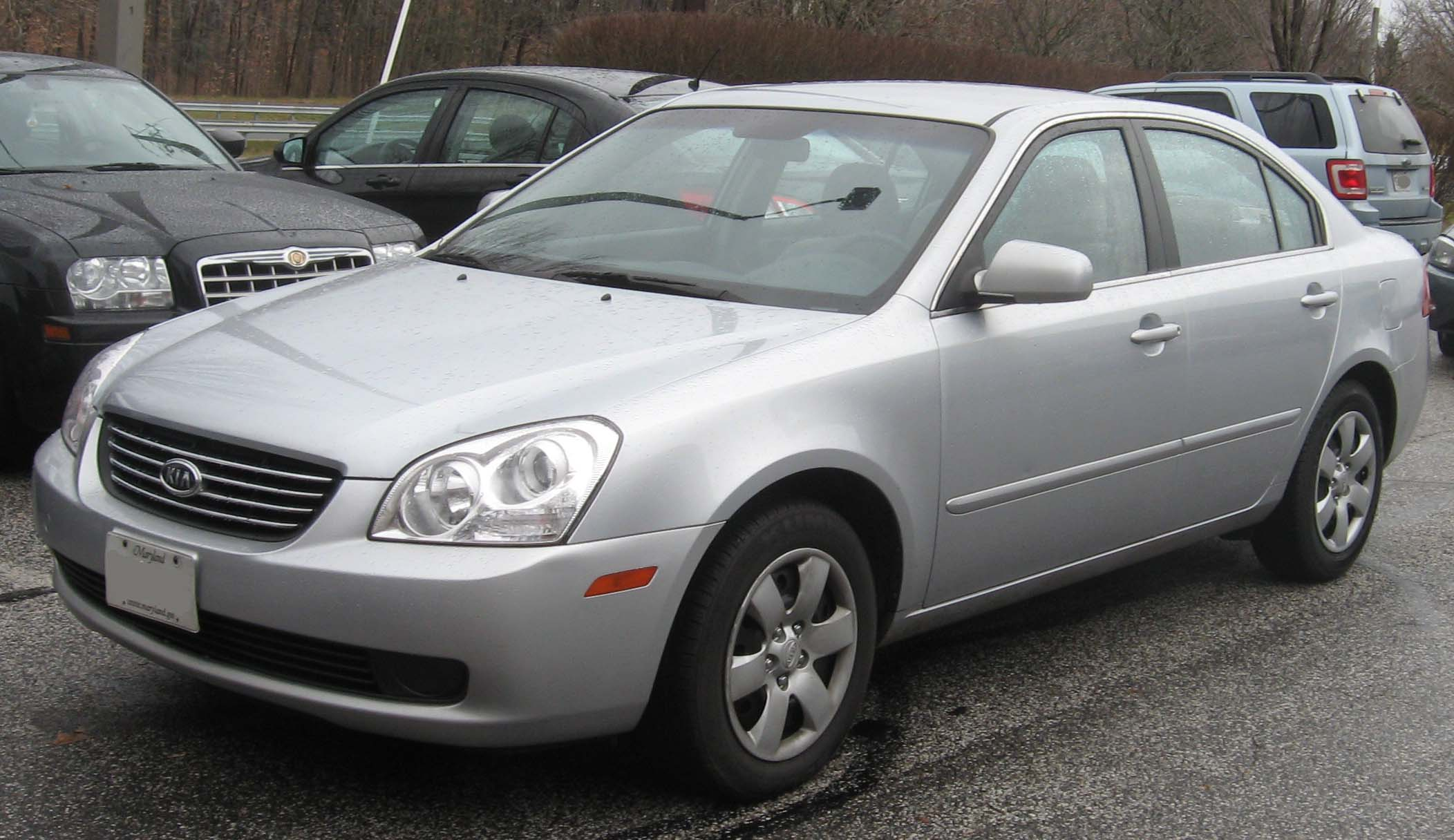 2006-2008 Kia Optima LX photographed in Fort Washington, Maryland, USA.